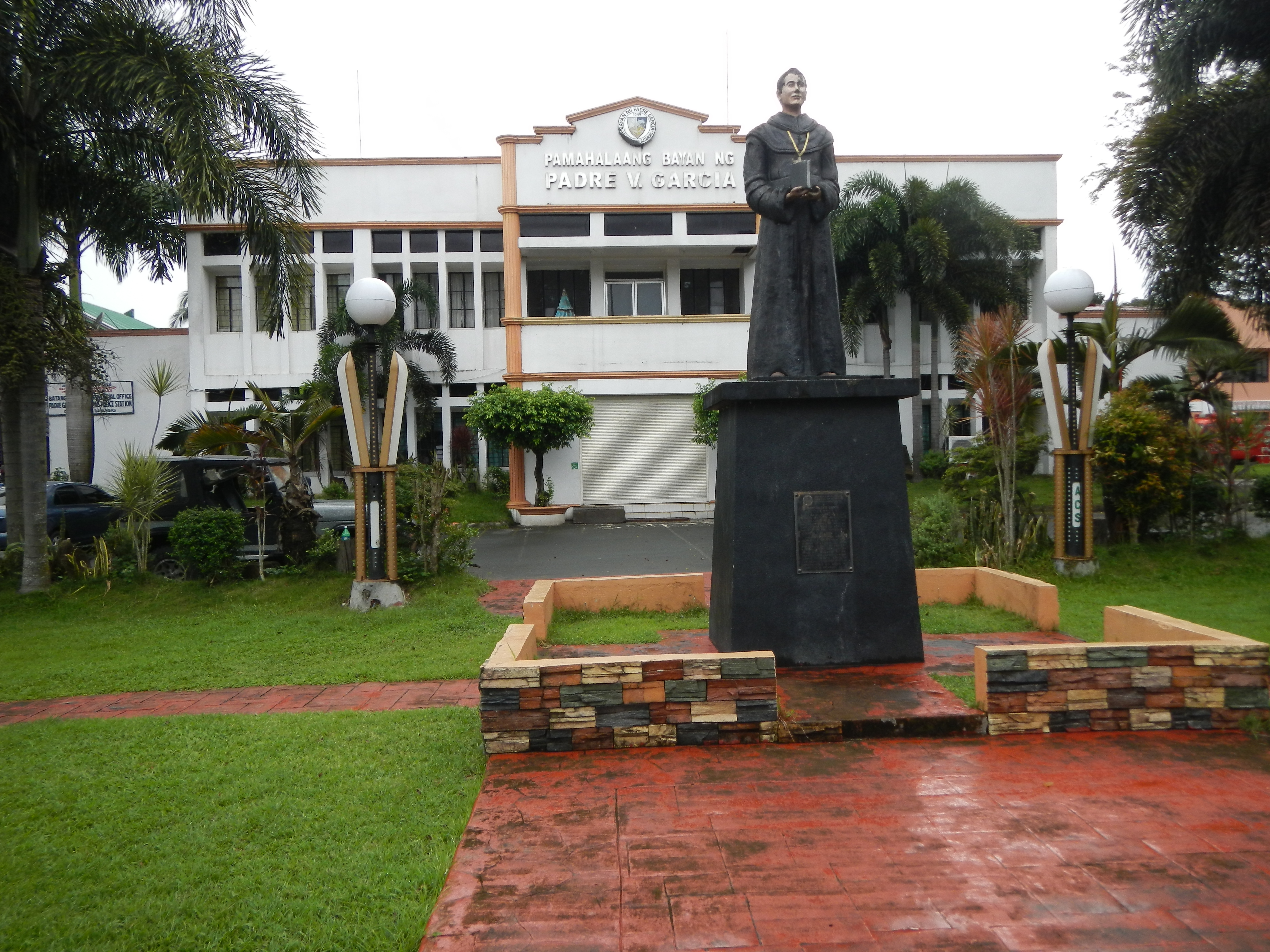 Padre Garcia, Batangas[1] Poblacion, [2] Coordinates: 13°52'42"N 121°12'54"E (a third class municipality in the province of Batangas[3], Philippines. According to the latest census, it has a population of 42,942 people in 6,334 households. It has 20,087 registered voters as of 2004; named after the town's most famous sons, Padre Vicente Garcia, [4]a native of Barangay Maugat, the first defender's of Jose Rizal's Noli Me Tangere, the town is cattle trading capital of the Philippines politically subdivided into 18 barangays).[5] Coordinates: 13°52'43"N 121°15'11"E.